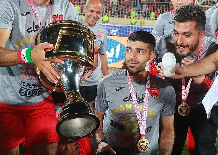 Persepolis F.C. title winning ceremony